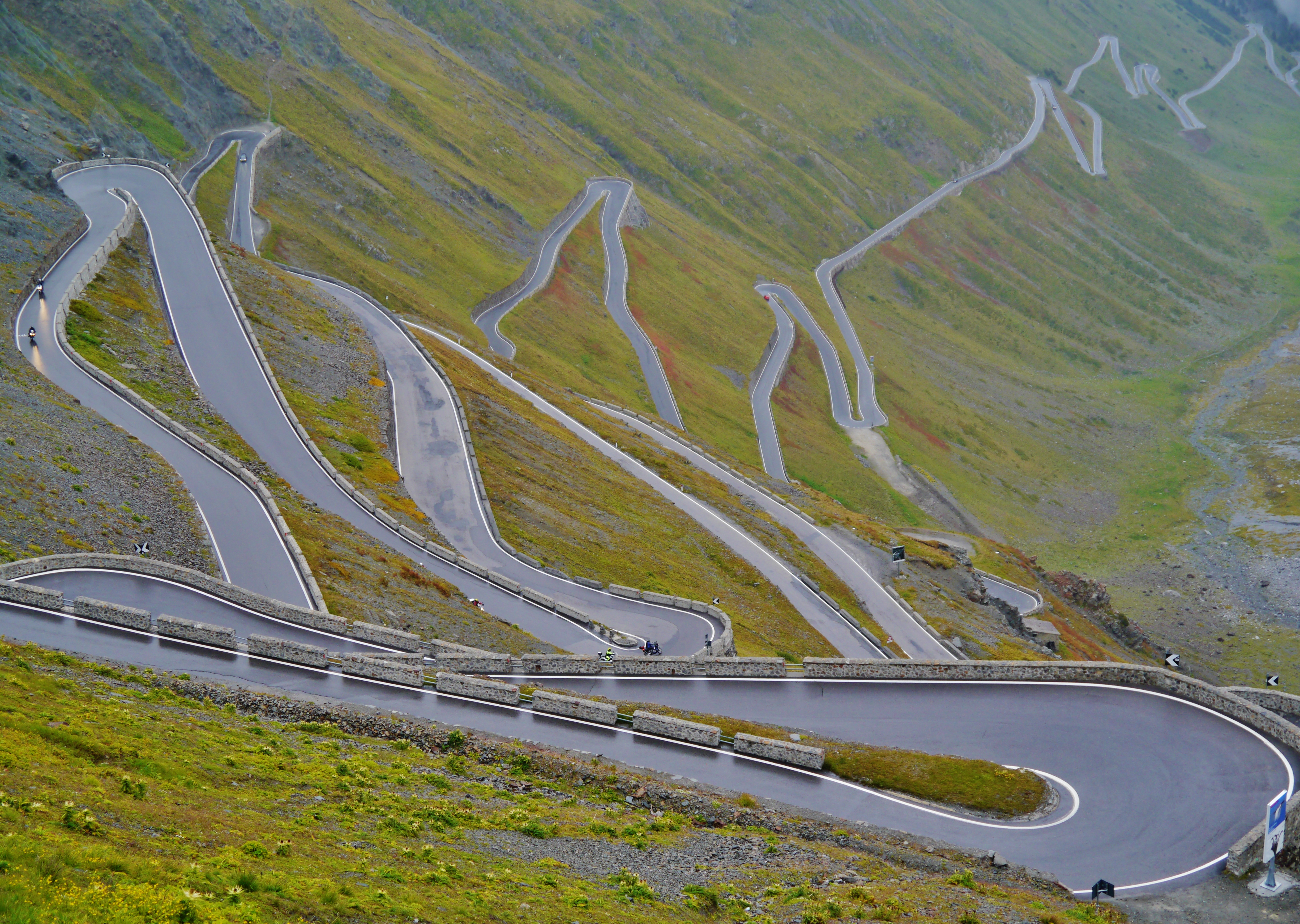 Western Ramp of Stelvio Pass, Trentino-Alto Adige/Südtirol, Italy